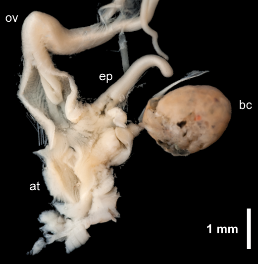 Photo of reproductive system of holotype of Arion occultus. Locality: Co. Down, Ballywalter, SE of Newtownards, UK - Nothern Ireland (according to the table S1.) ov - oviduct; ep - epiphallus; bc - bursa copulatrix; at - atrium.